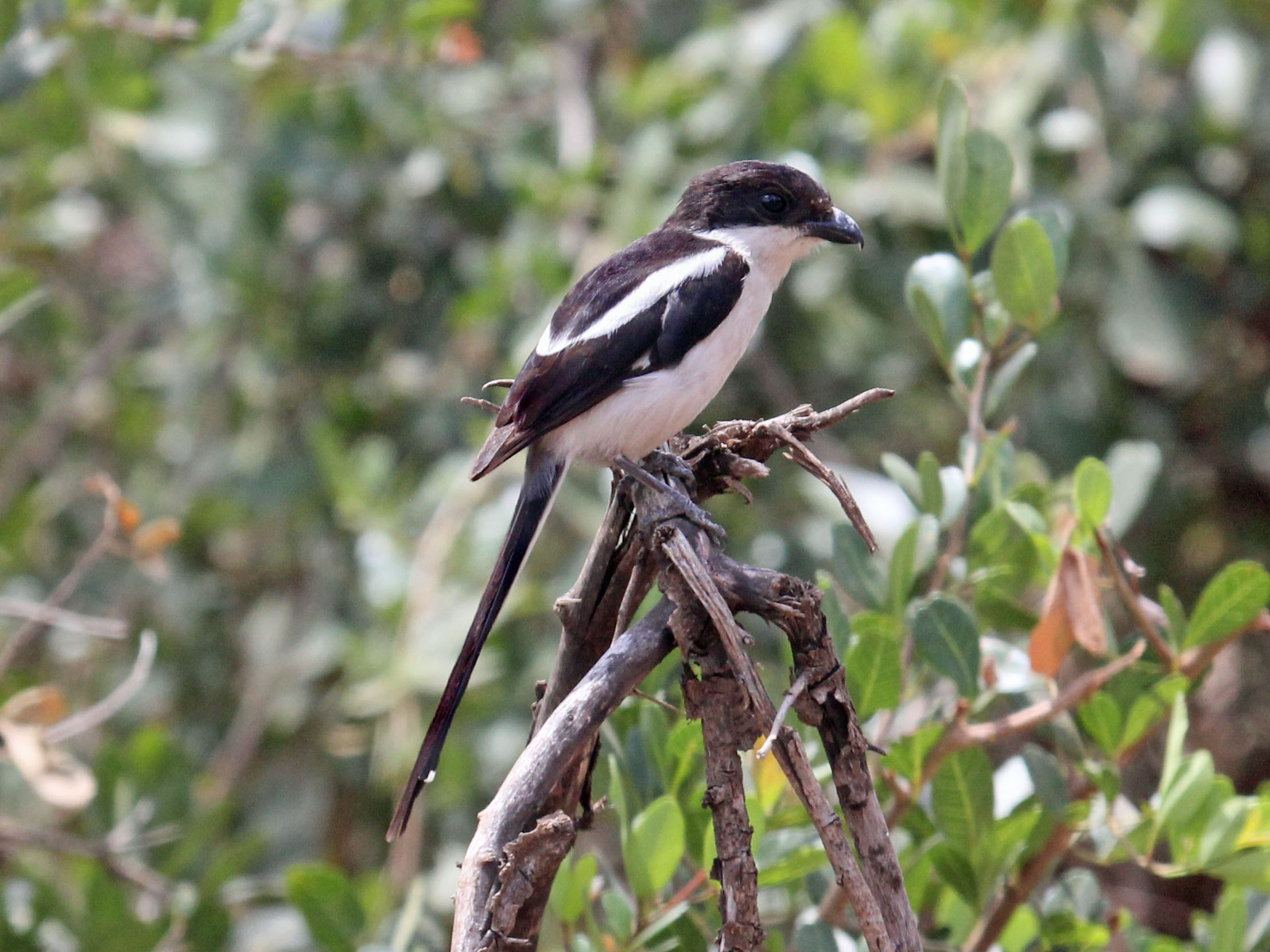 Northern Fiscal (Lanius humeralis) - Nairobi National Park, Kenya. The Northern Fiscal was previously combined with the Southern Fiscal to form the Common Fiscal.